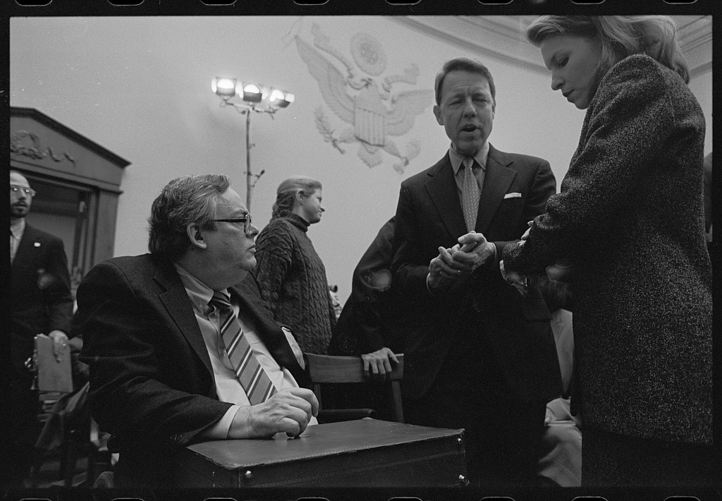 White House Counsel Charles Ruff and others, at a House Judiciary Committee hearing about about the investigation of President Clinton's relationship with Monica Lewinsky